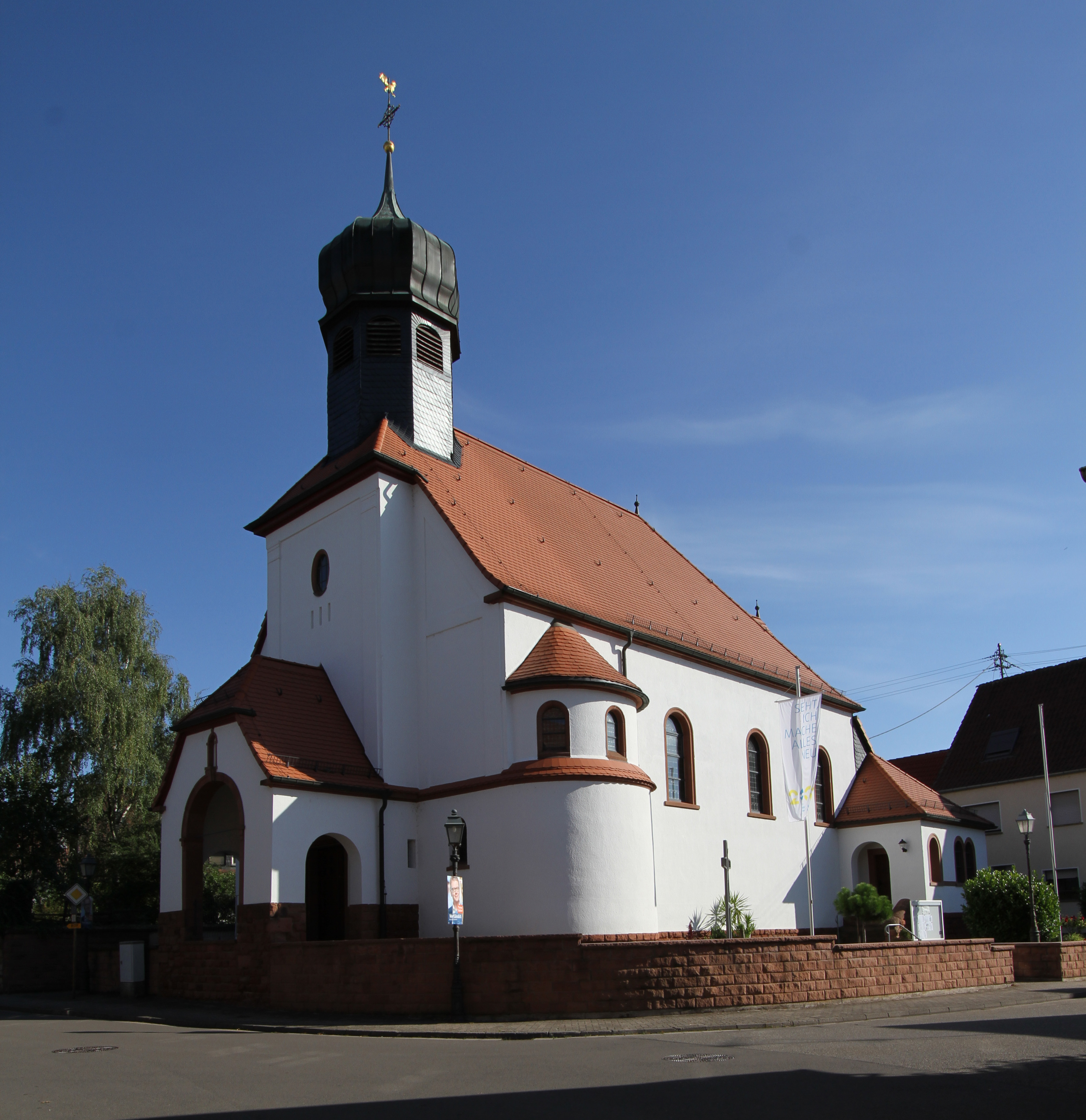 Cultural heritage monument in Lustadt